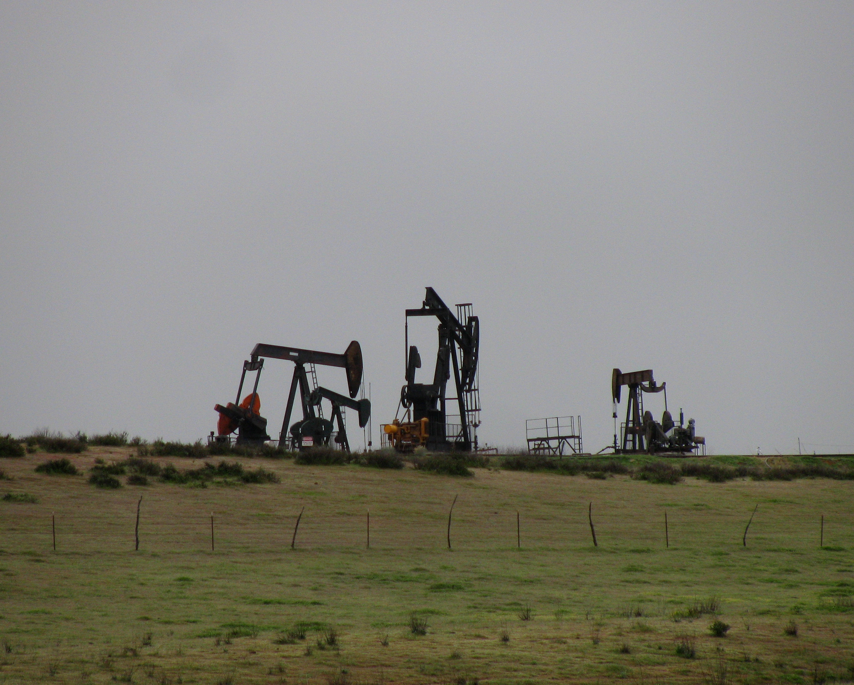 Cluster of oil wells, Russell Ranch field; photo by self, 13 March 2010; GFDL/equiv